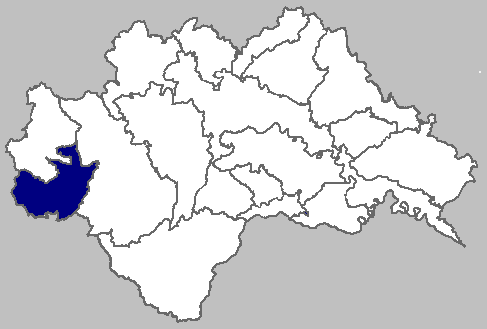 Self-made map of Topusko municipality within Sisak-Moslavina County.